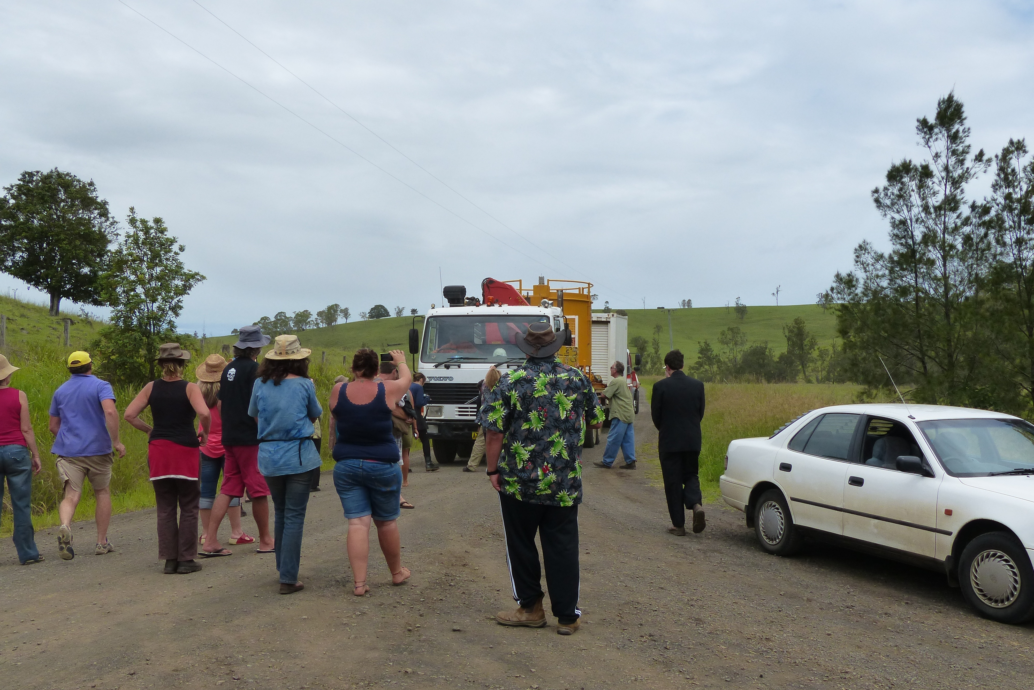 Doubtful Creek 7.2.13